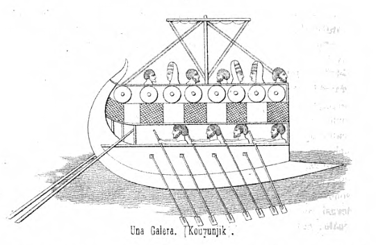 Detail from wall relief in Niniveh, showing the evacuation of Tyre in 702 BC. A very early example of a two-tiered galley (bireme). Cropped from Google scan of the Italian version of Layard's book, page 324.